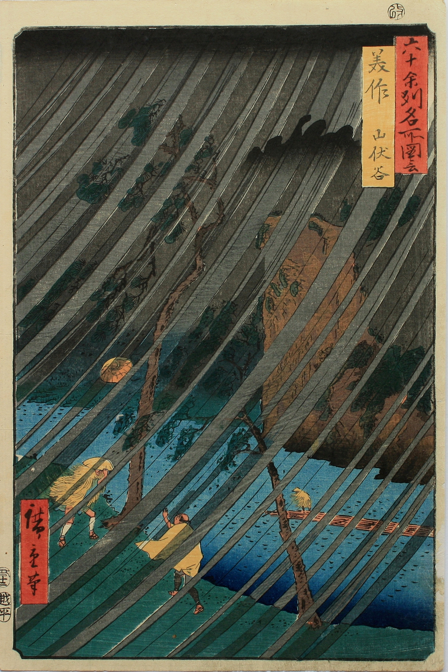 Mimasaka Yamabushidani of The Famous Scenes of the Sixty States.